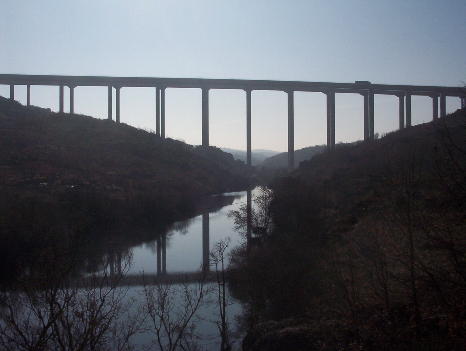 Coa River.